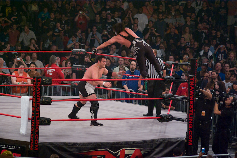 Sting (right) in the process of doing a diving DDT on Samoa Joe